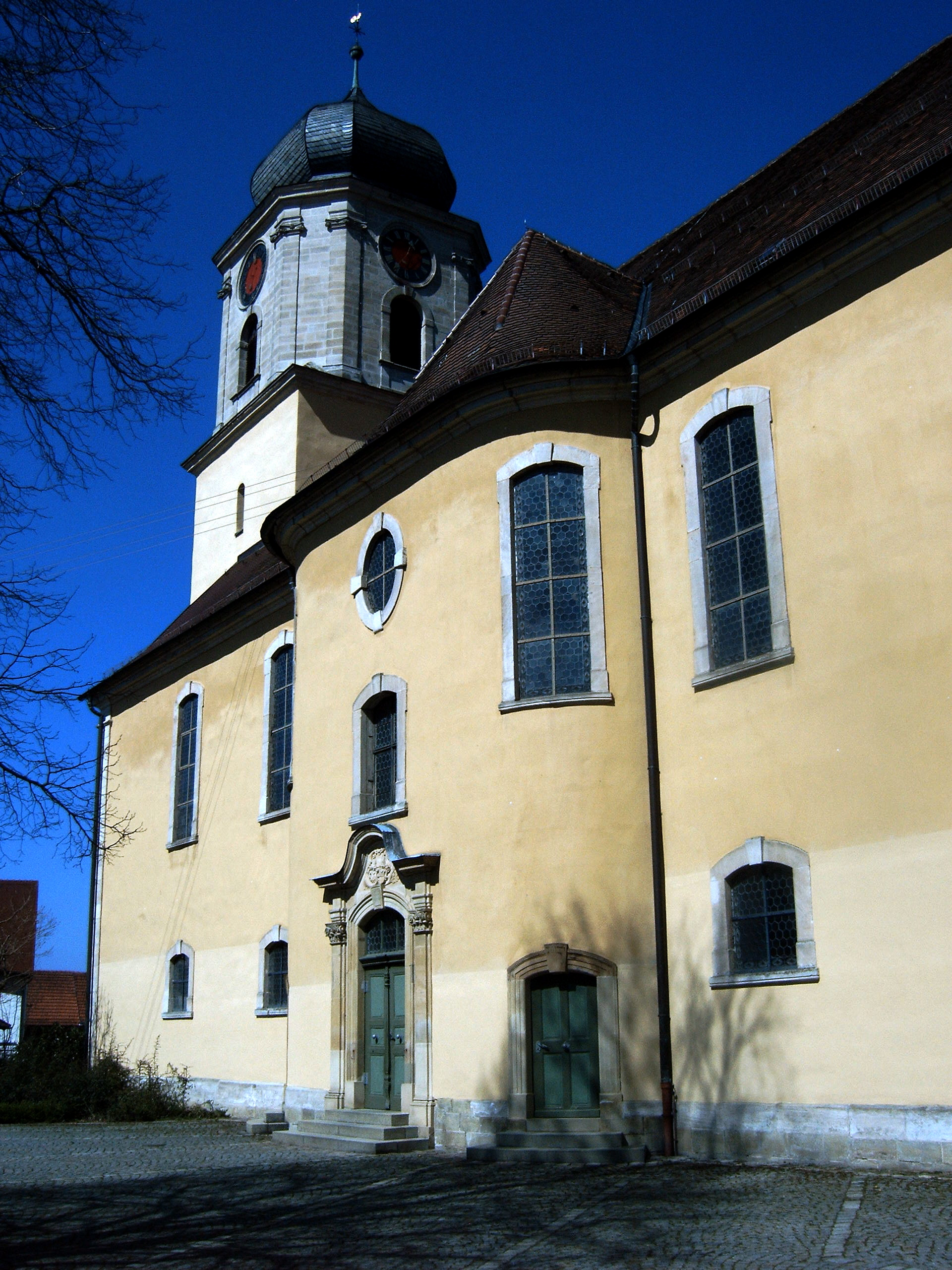 Church in Alfdorf, Germany